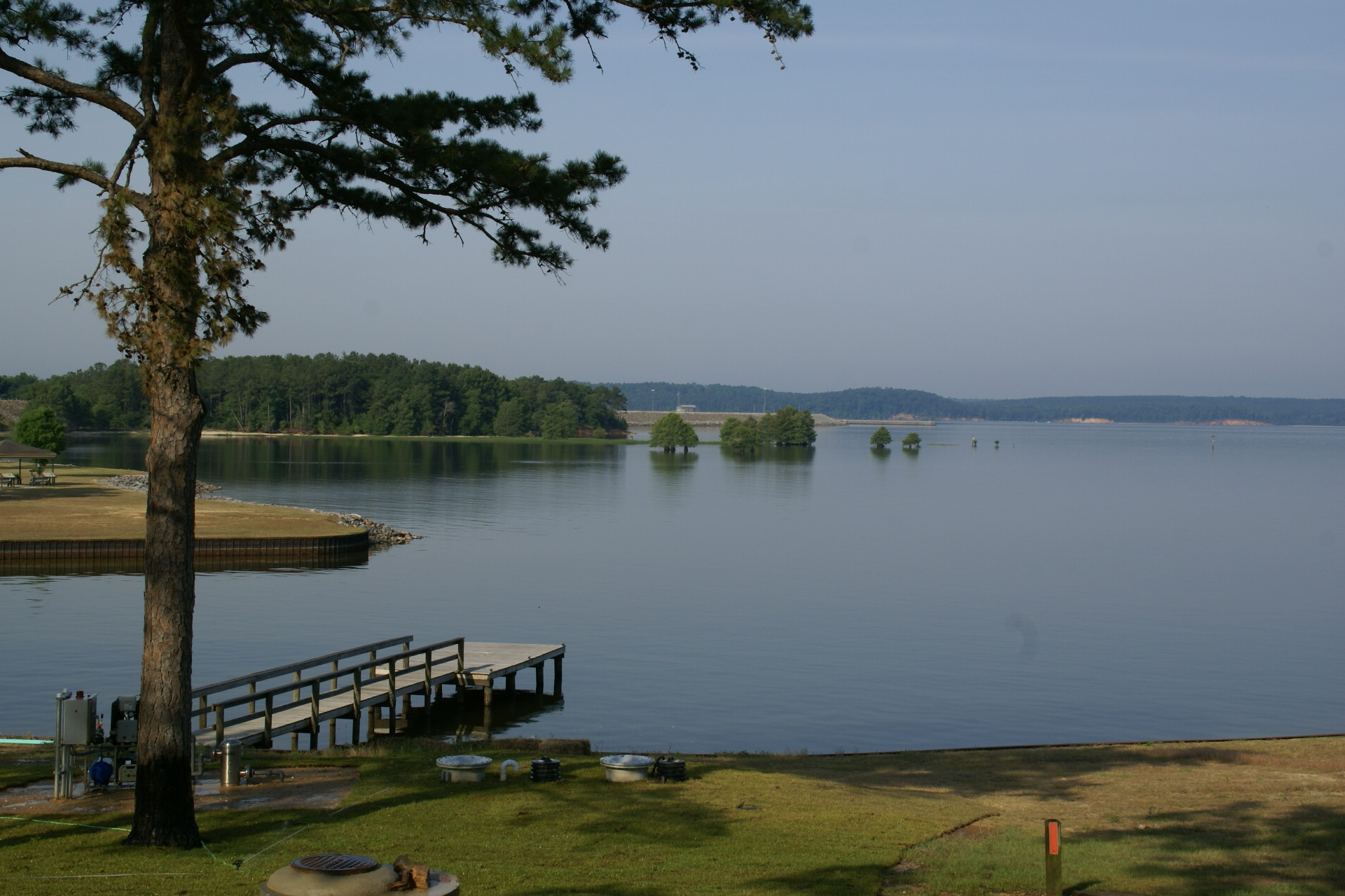 East Bank of George T. Bagby State Park near Fort Gaines, Georgia, USA